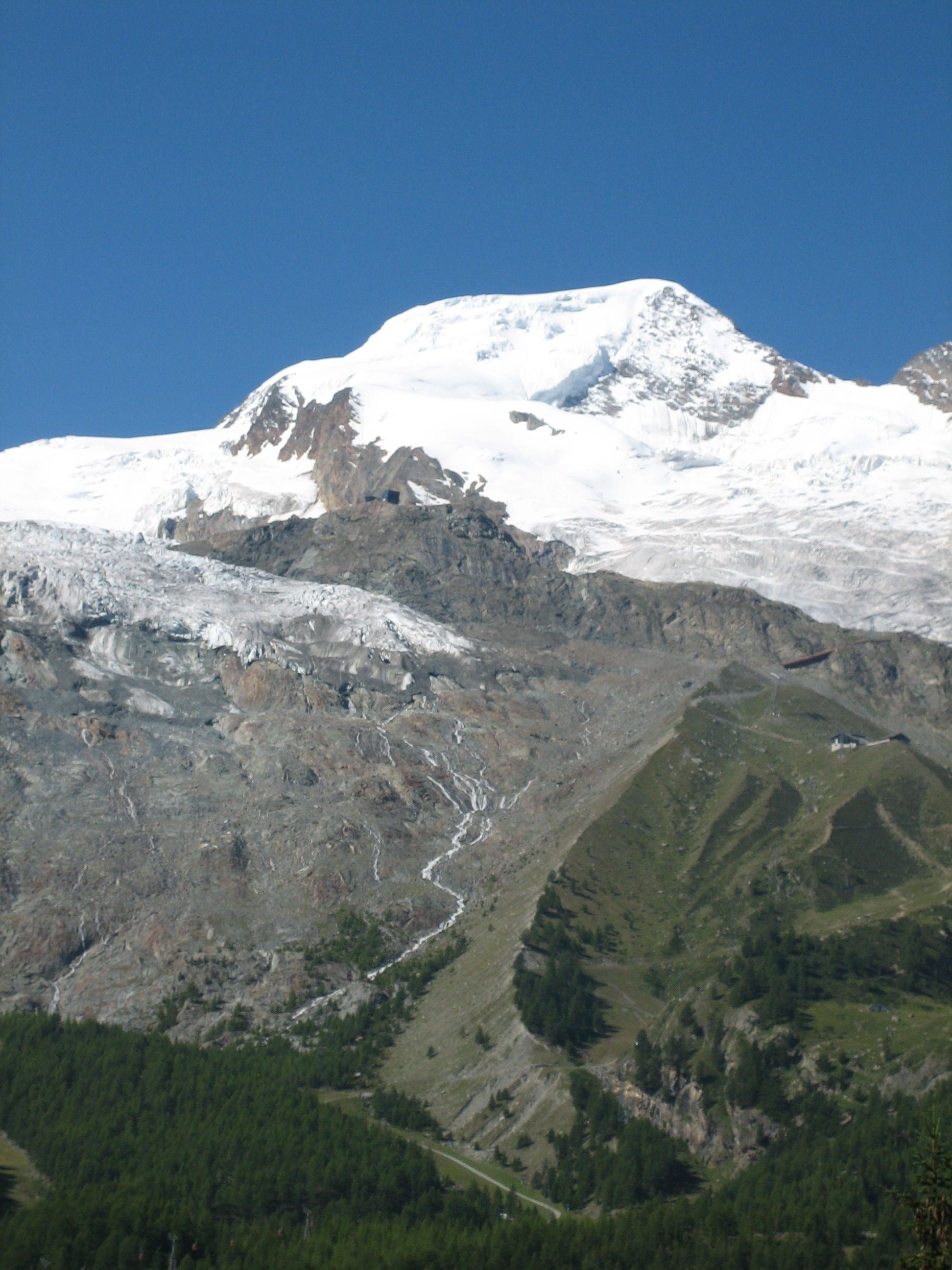 Alphubel from Saas-Fee